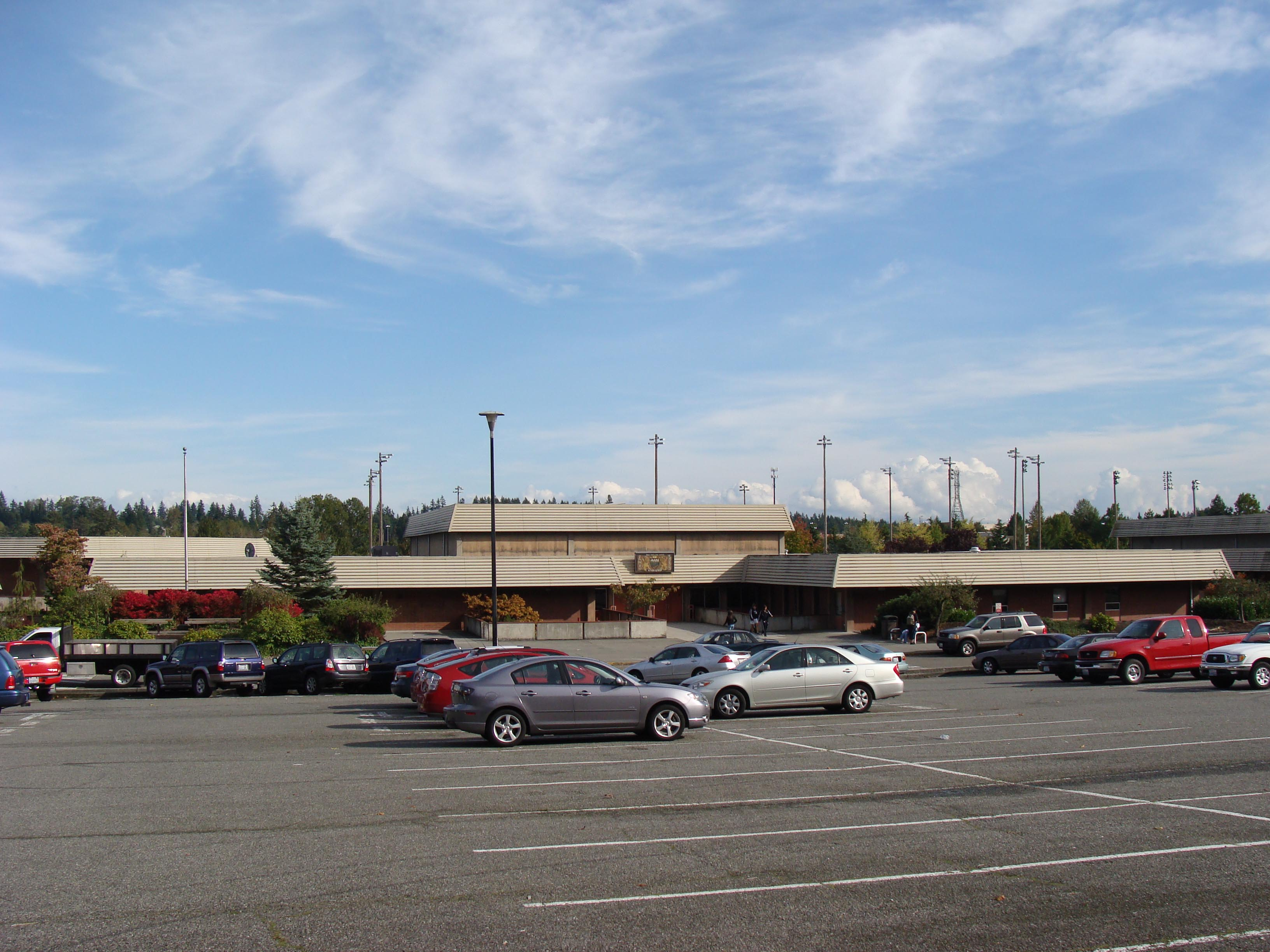 Picture of Lynnwood High School on the north side of Alderwood Mall in the city of Lynnwood, Washington.